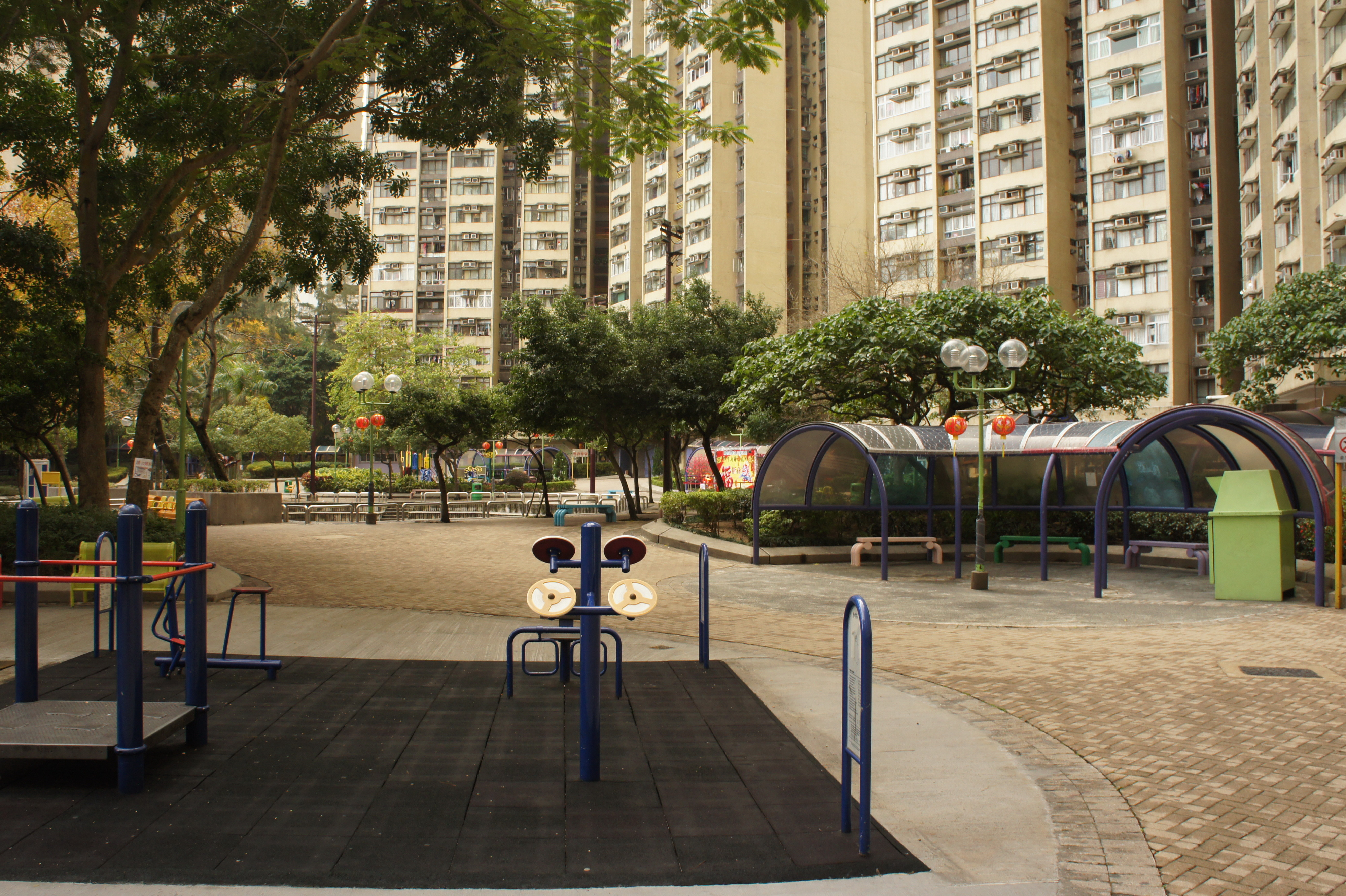 Podium, Hin Keng Estate, Tai Wai, Sha Tin, New Territories, Hong Kong.